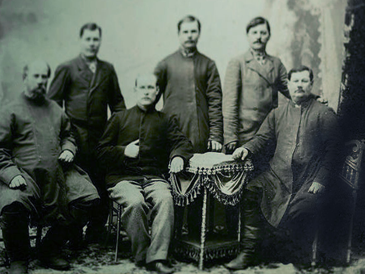 The Ukrainian maritime pilot, 1900-s